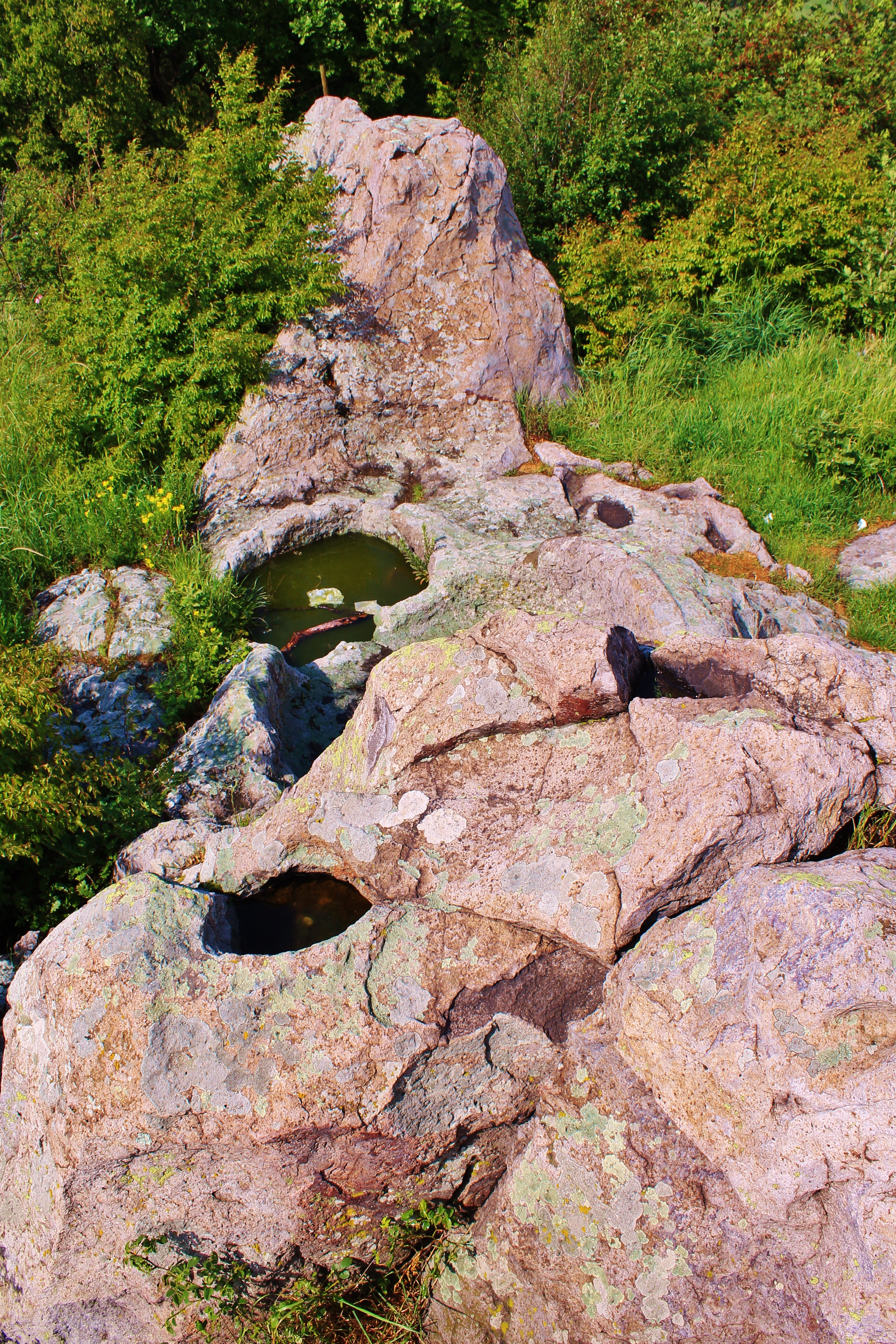 Sharapana rocks Bryastovo Mechkovetz Rhodopa Mountains Bulgaria 04